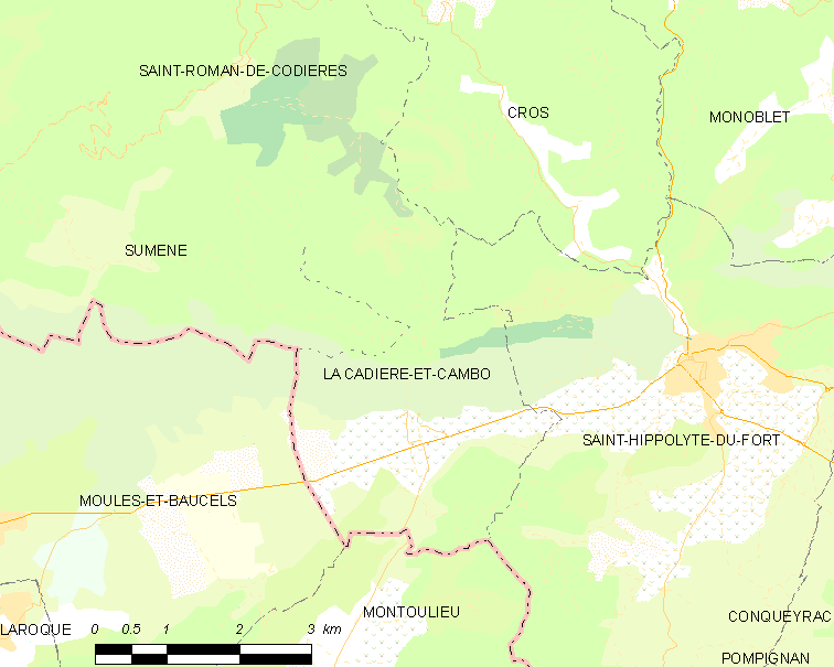 Map commune FR insee code 30058.png - La Cadière-et-Cambo